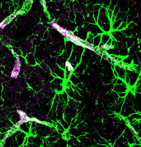 Astrocytes stained for GFAP, with end-feet ensheathing blood vessels